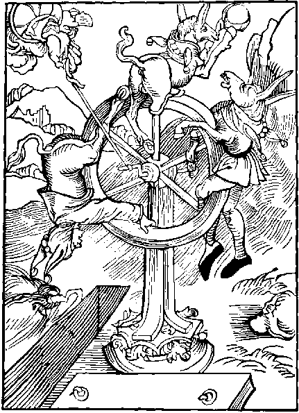 This is the scan of historical document